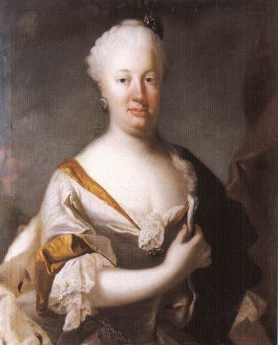 Portrait of Princess Charlotte Amalie of Hesse-Philippsthal (1730-1801), wife of Anton Ulrich, Duke of Saxe-Meiningen